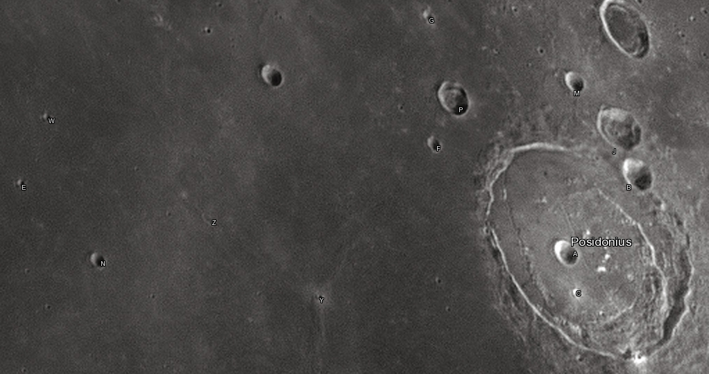 Posidonius lunar crater as seen from Earth with satellite craters labeled